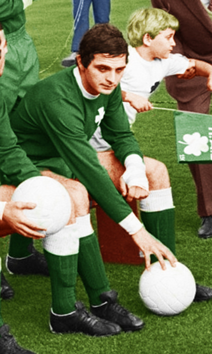 Kostas Eleftherakis, Panathinaikos - Ajax, Wembley, 1971